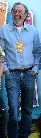 The Simpsons cast and crew at a stamp unveiling in Los Angeles, California